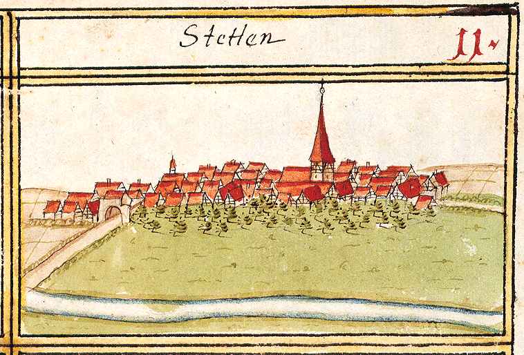 View of Stetten am Heuchelberg, Schwaigern, from the forest register books created by Andreas Kieser